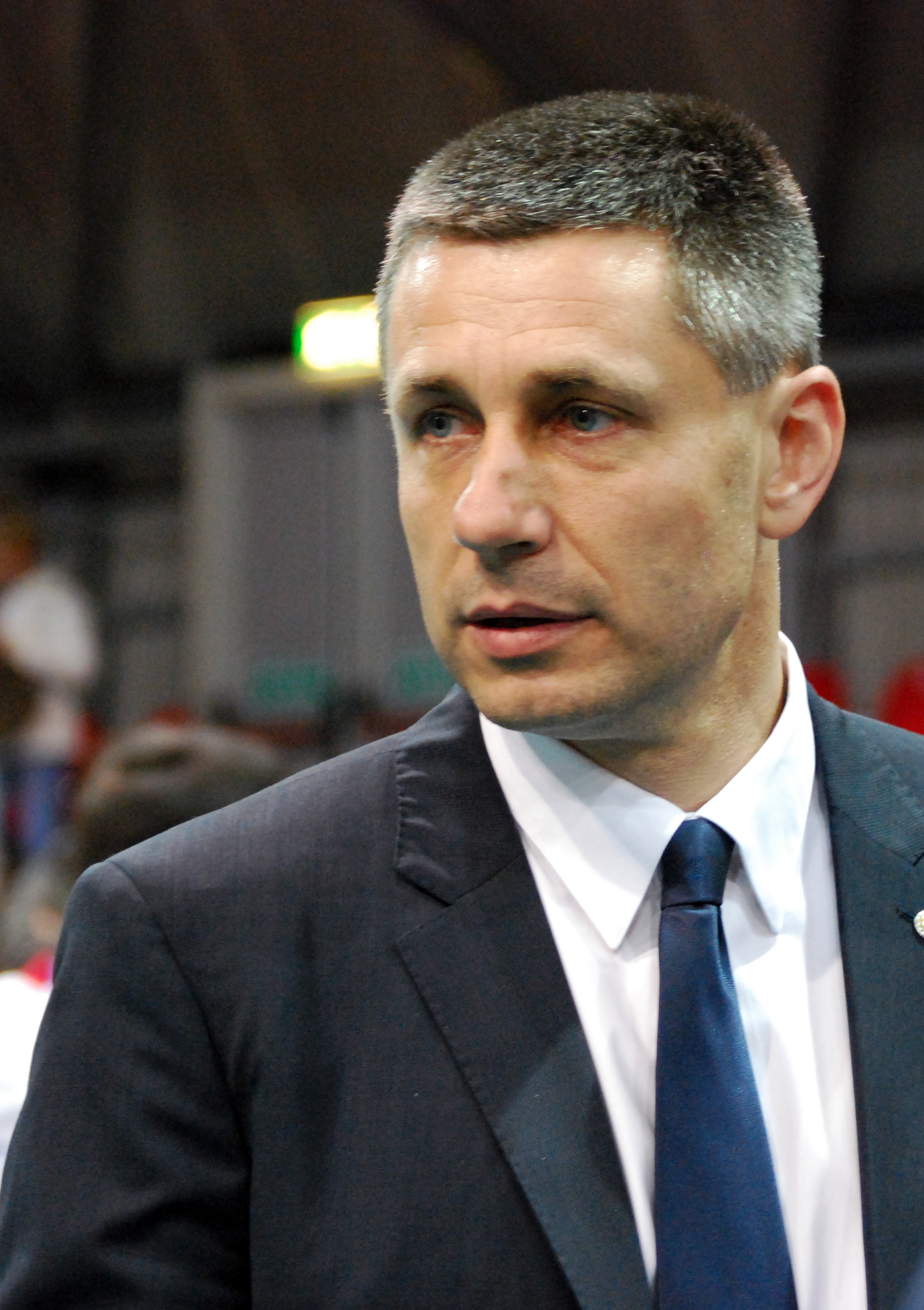 I took this photo during a volleyball match in Piacenza